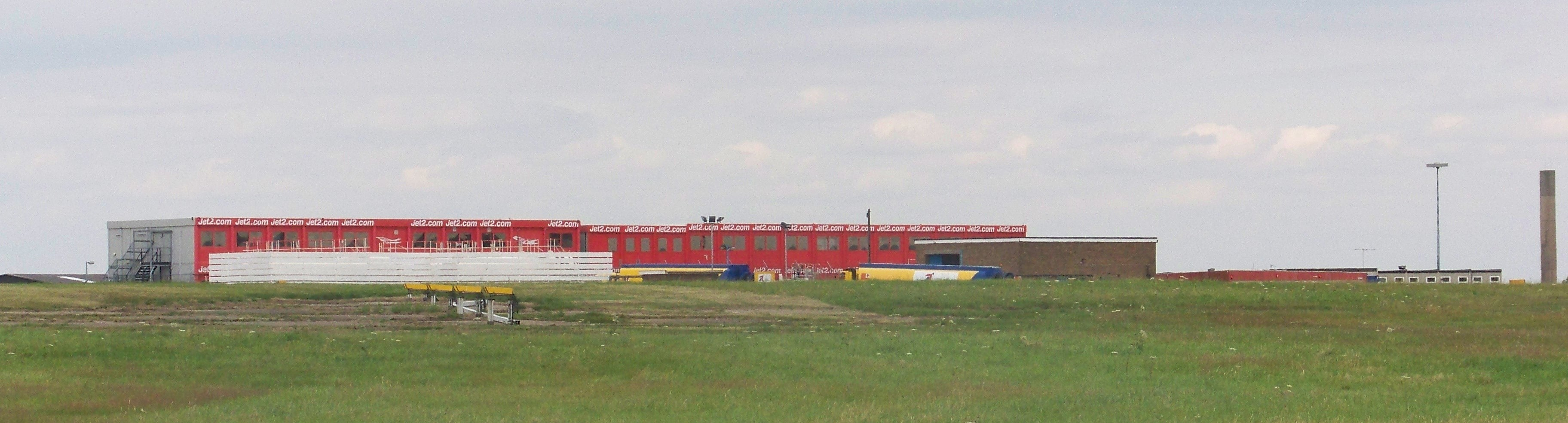 Panoramic image of the rear of the Low Fare Finder House, the headquarters of and parent company Dart Group, at Leeds Bradford International Airport. Taken on the afternoon of Thursday the 24th of July 2010.